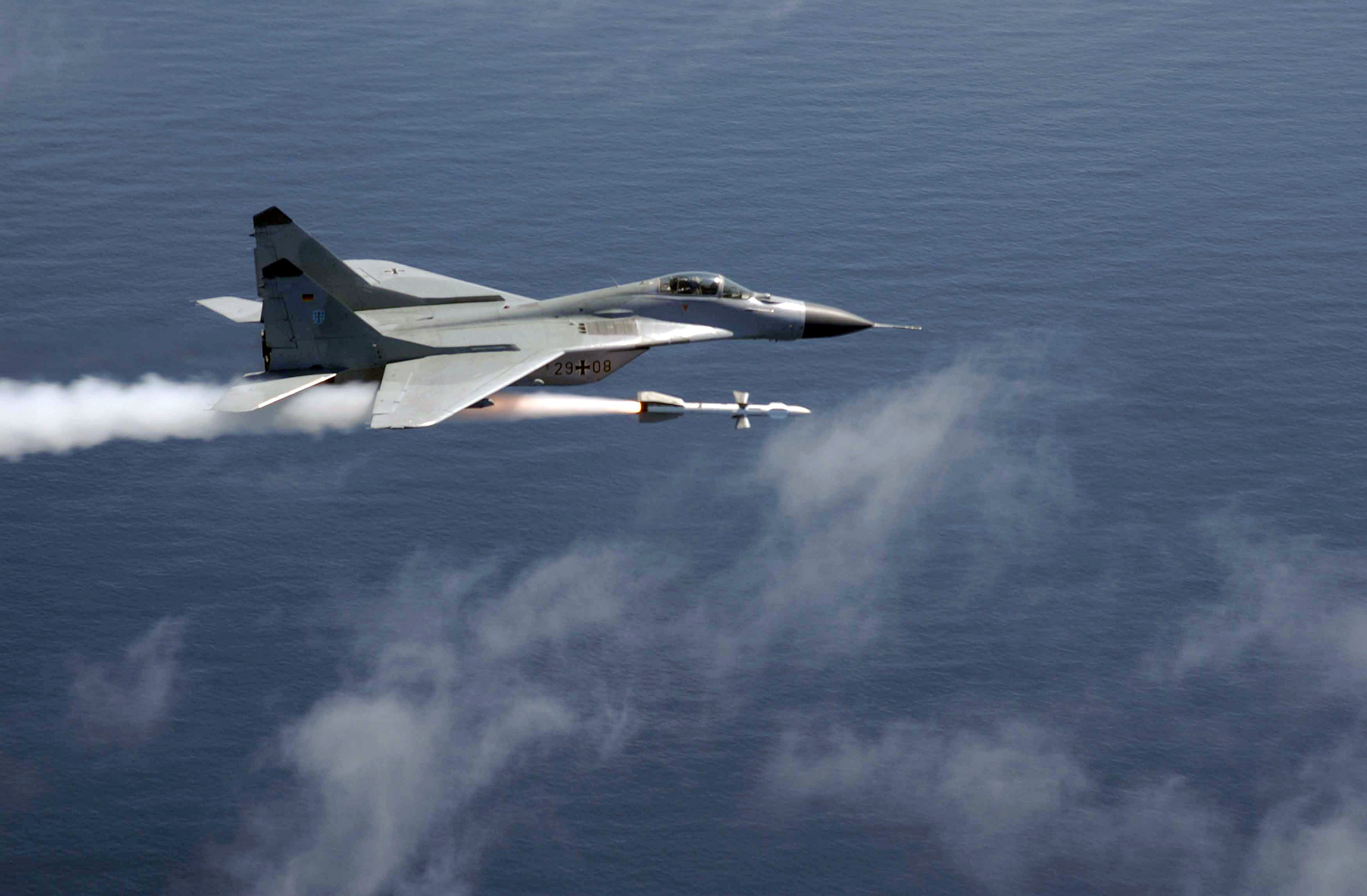 A Soviet-built MiG-29 Fulcrum fighter flown by Major (MAJ) Peter Meisberger, from Germany`s (DEU) 73rd Fighter Wing (FW), Laage Air Base (AB), Germany, fires a radar guided AA-10 "Alamo" short-burn air-to-air missile at a QF-4 "Rhino" full-scale aerial target drone during a live-fire weapons training mission. Command Shown: ANG